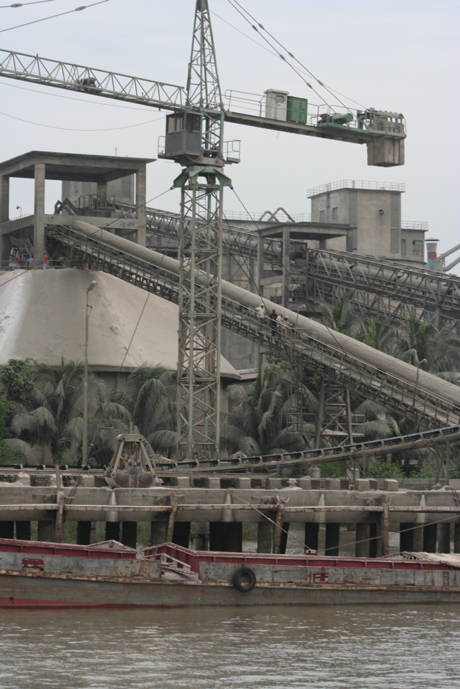 The Port of Mongla, Bangladesh.